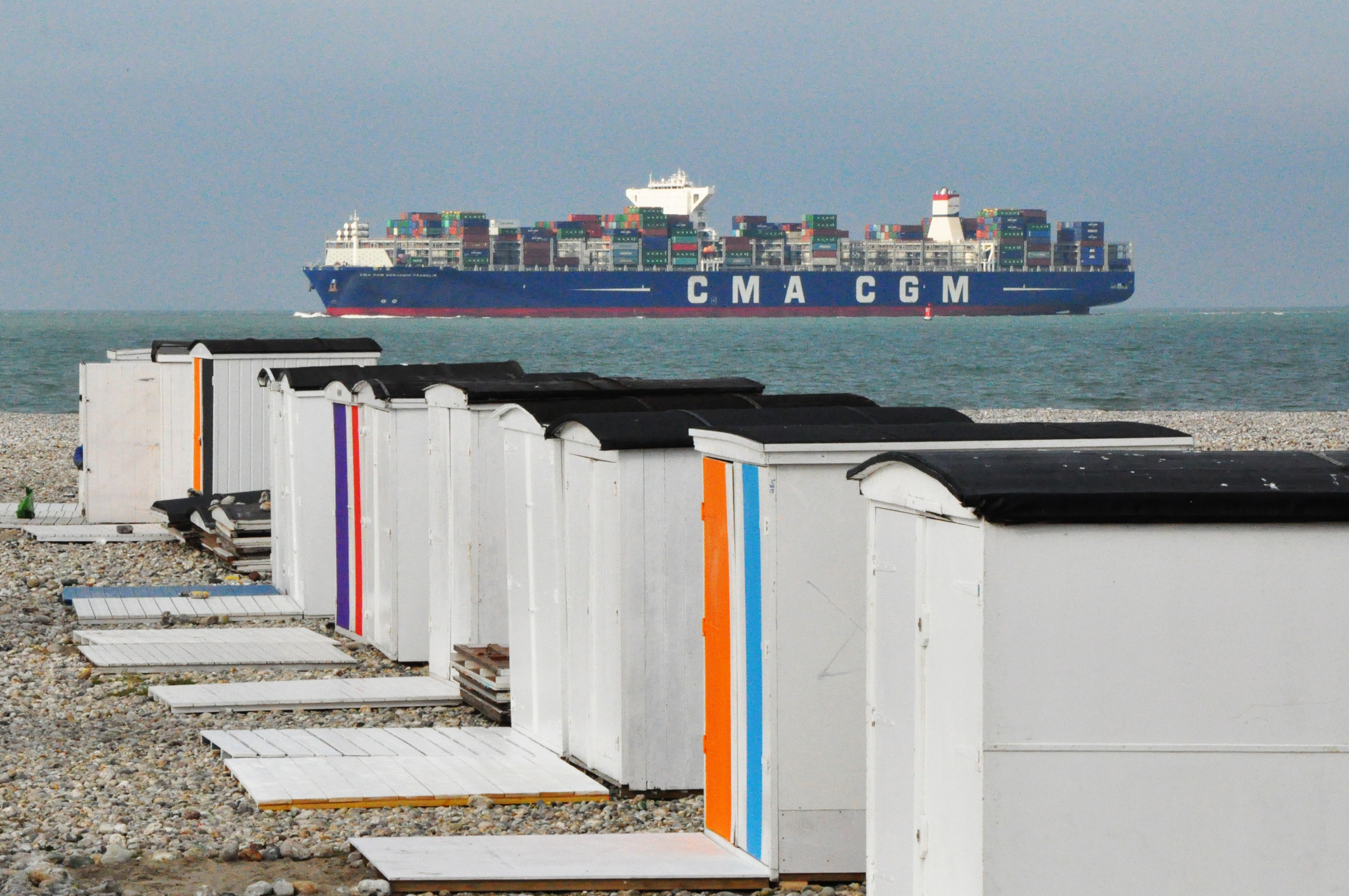 Beach huts colorized for 500th anniversary of Le Havre (France, Normandy)